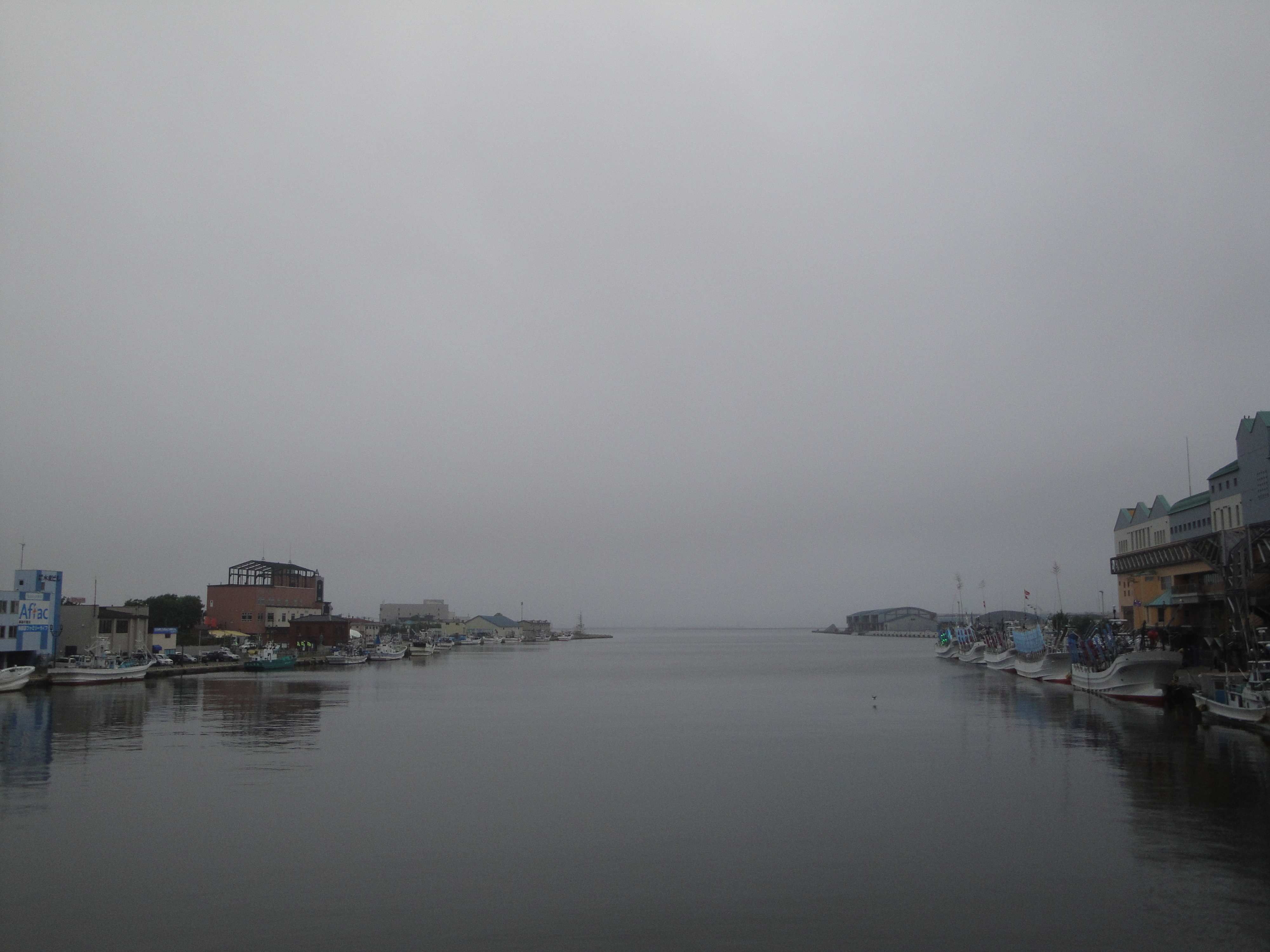 Estuary of Kushiro River (old)